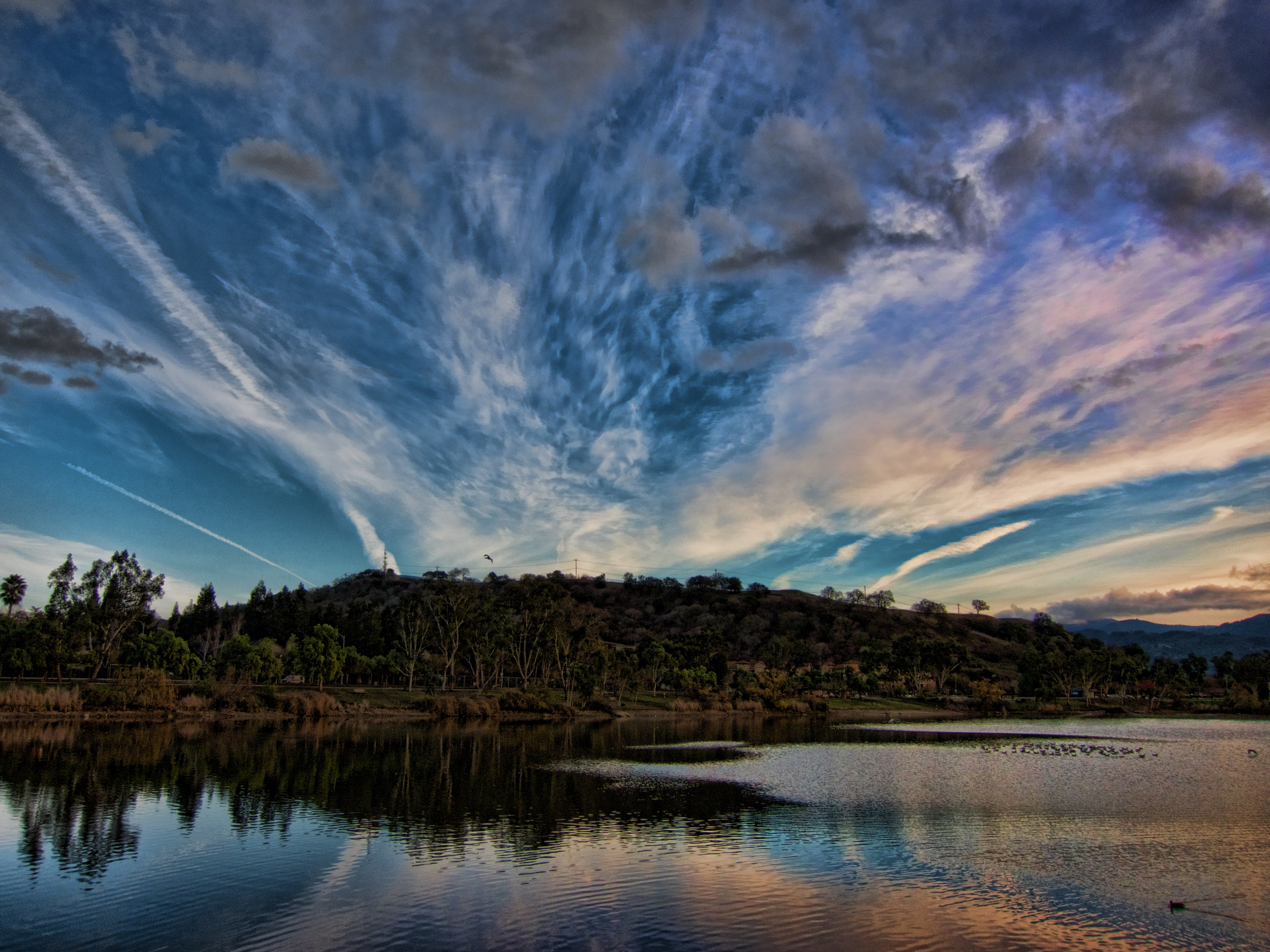 Almaden Valley, San Jose, California